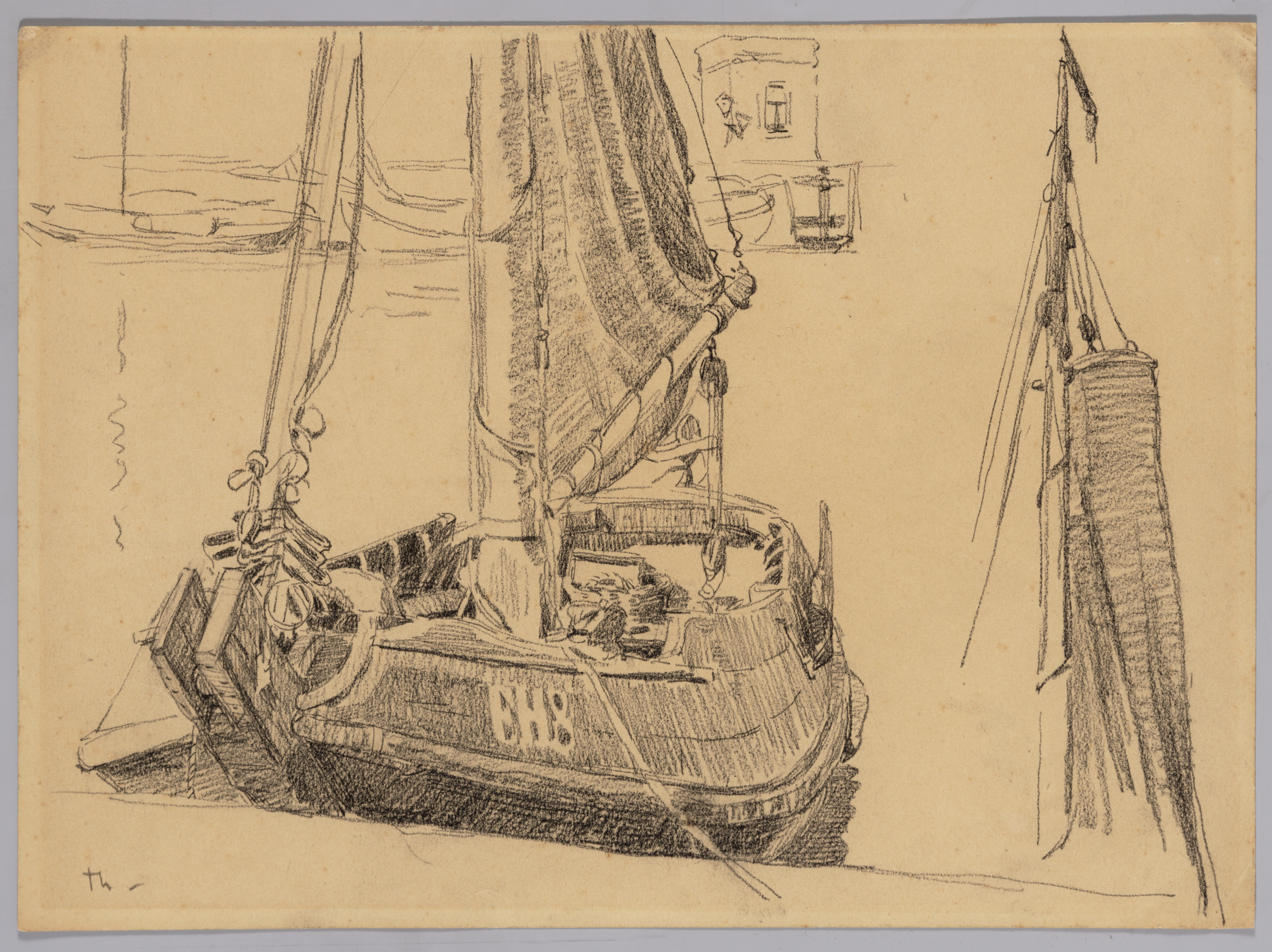 Bons, E.H. 8, in de haven van Enkhuizen